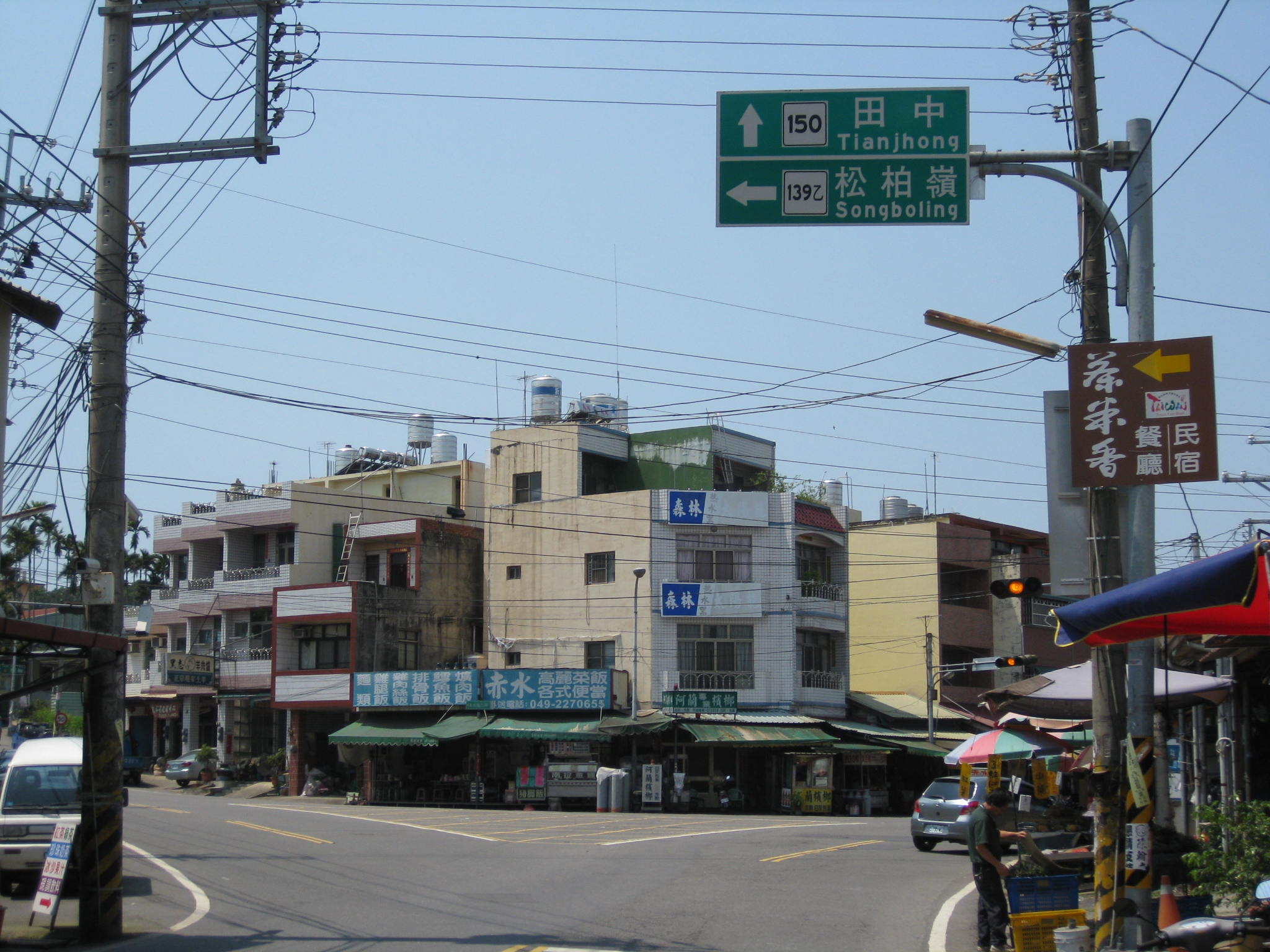 Chihshui is a village in Mingjian Township,it located on the southern side of Bagua Plateau.This photo shows the intersection of No.139B and No.150 in Chihshui,near on the border of Changhua and Nantou.